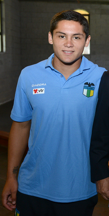 Juan Fuentes, chilean footballer